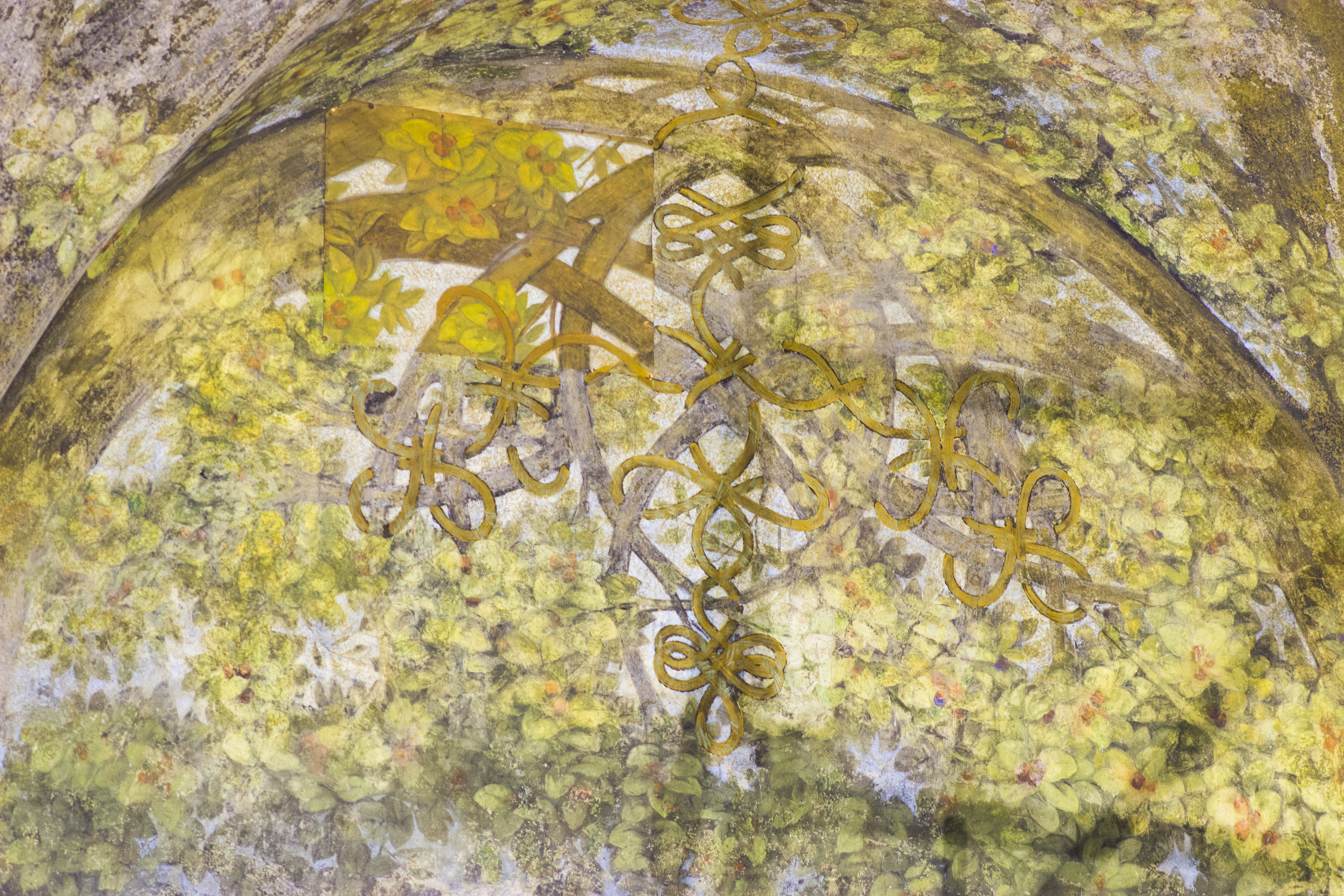 Remains of the 1902 restoriation compared to the 1956 restoration.